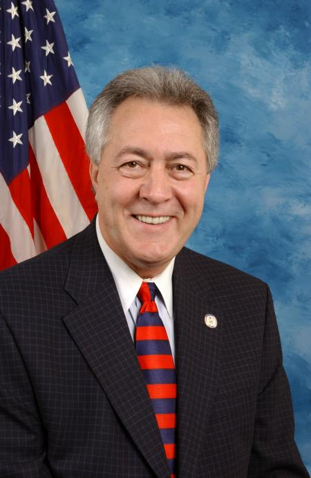 Rodney Alexander, member of the United States House of Representatives.